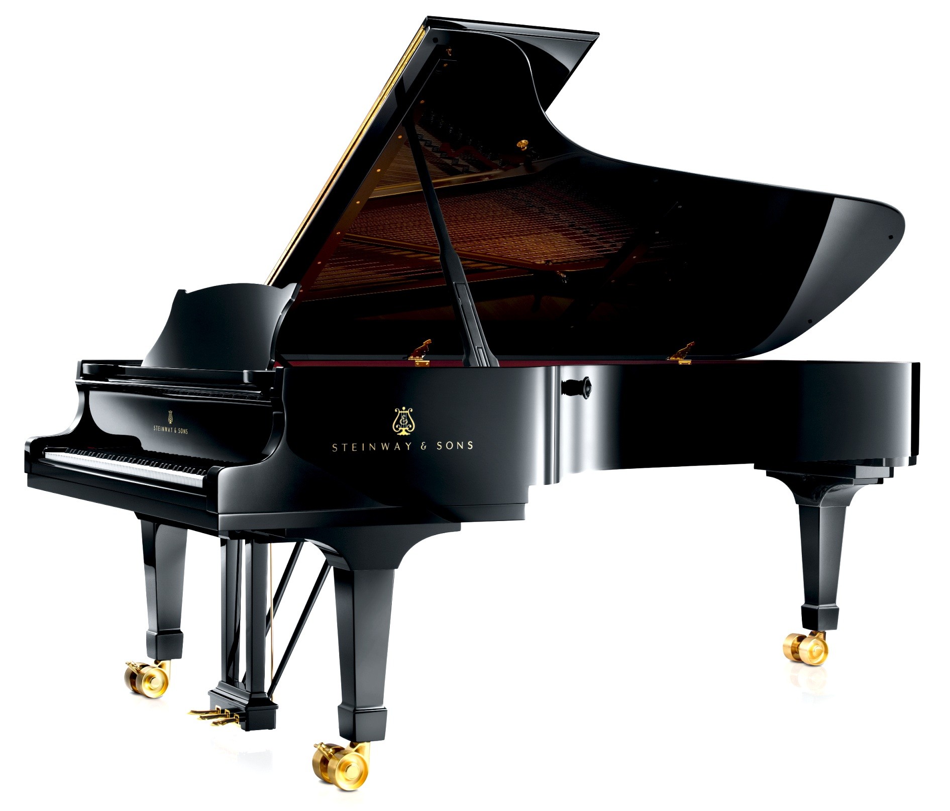 Steinway & Sons concert grand piano in high polish polyester finish, model D-274 (length: 274 cm / 107.9 in, width: 156 cm / 61.4 in, weight: approx. 480 kg / 1056 lb), manufactured at Steinway's factory in Hamburg, Germany.